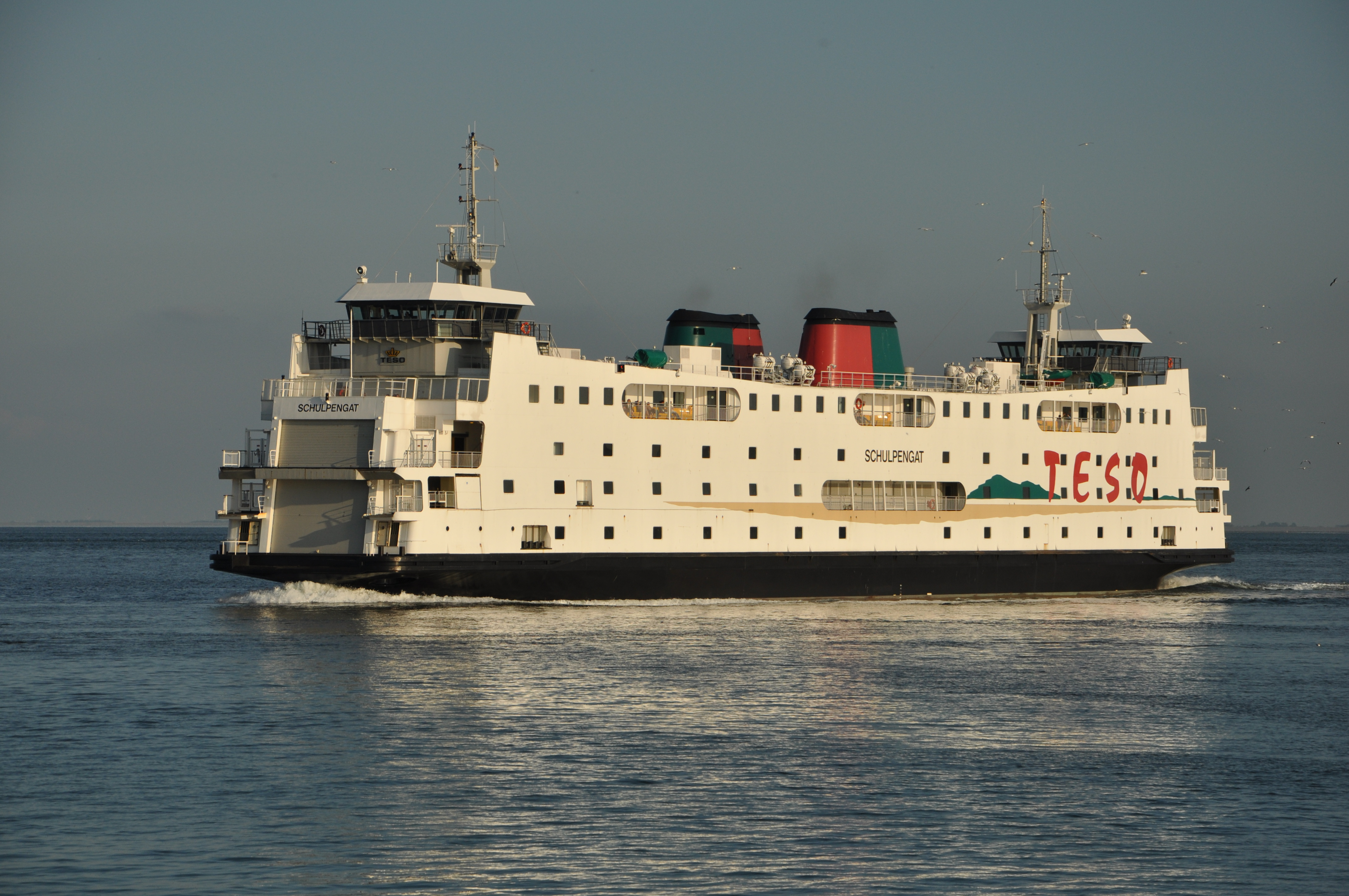 The ferry from Texel to Den Helder